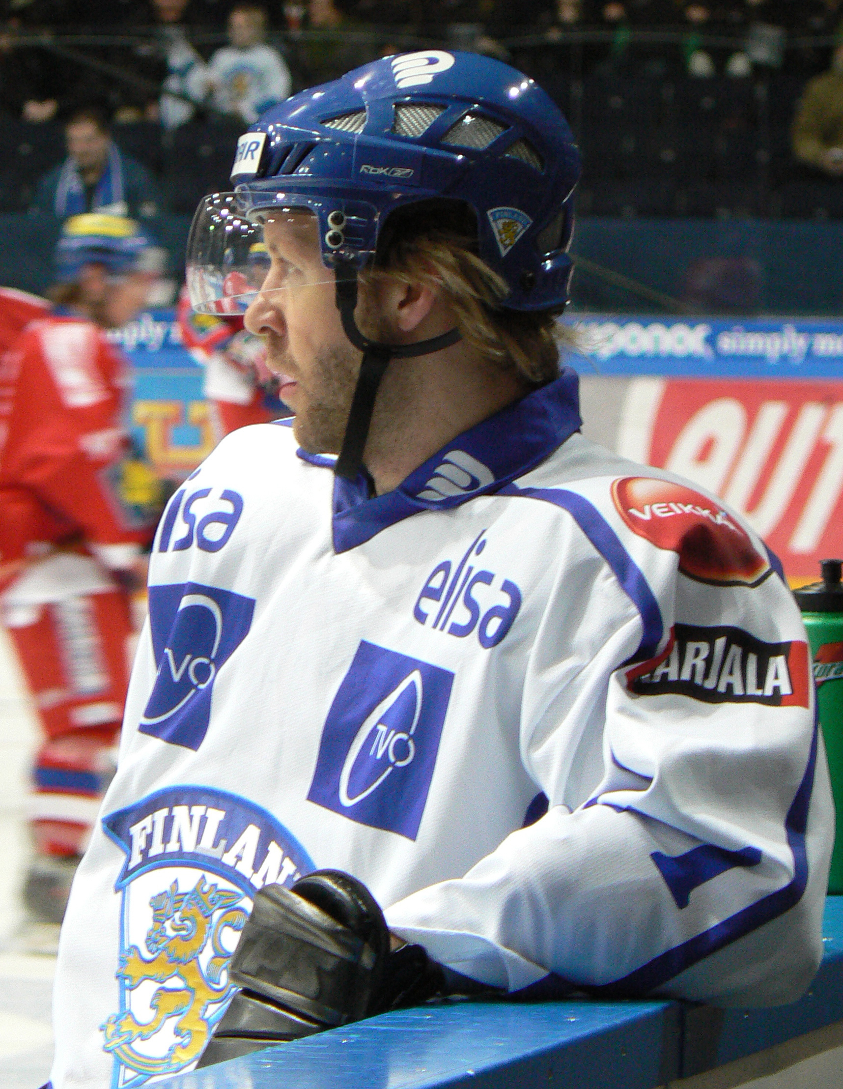 Finnish ice hockey forward Tomi Kallio playing for his national team in an LG Hockey Games / Euro Hockey Tour match against the Czech Republic in Tampere, Finland, February 2008.